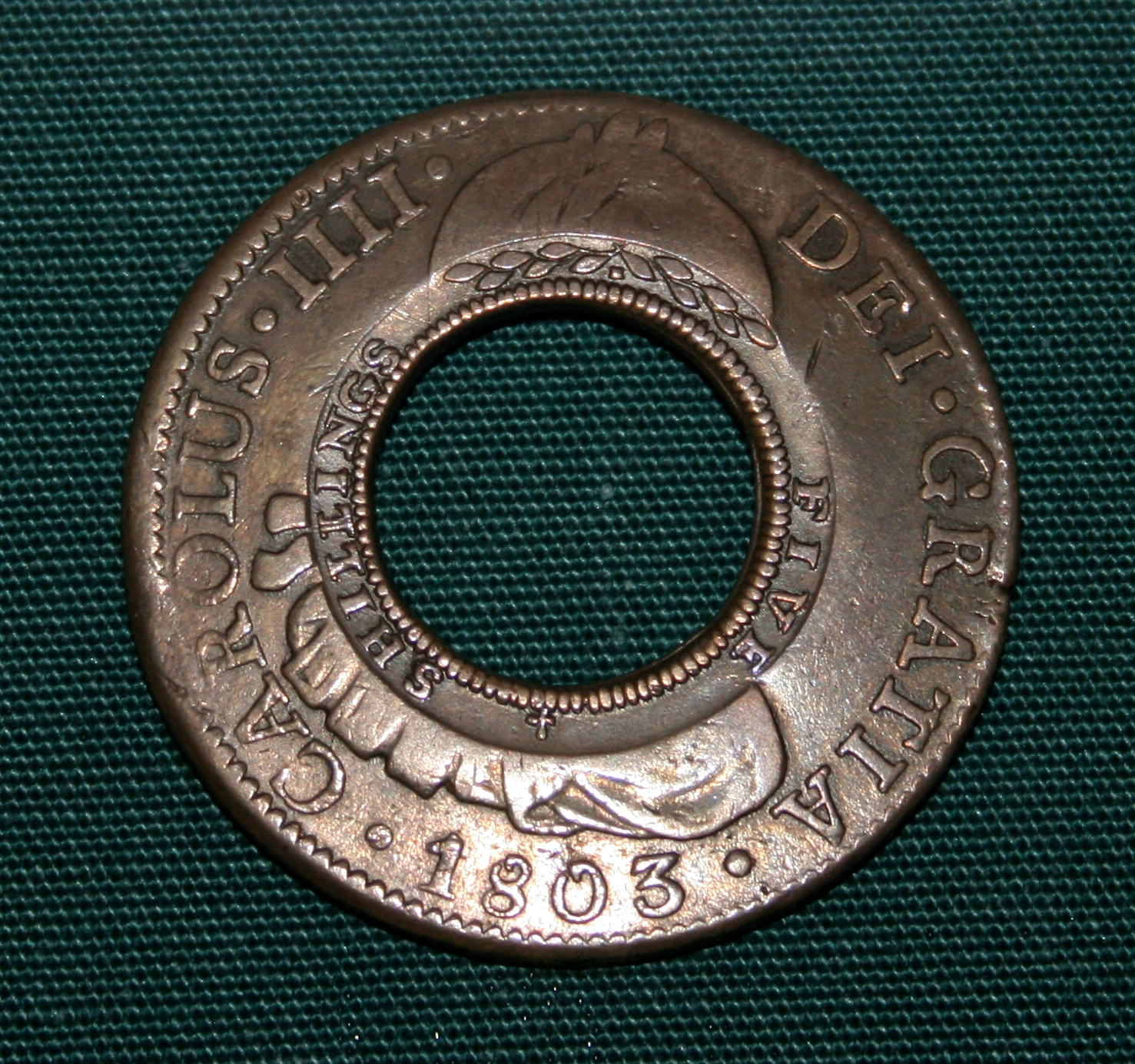 5-shilling 'holey dollar' In the British Museum.